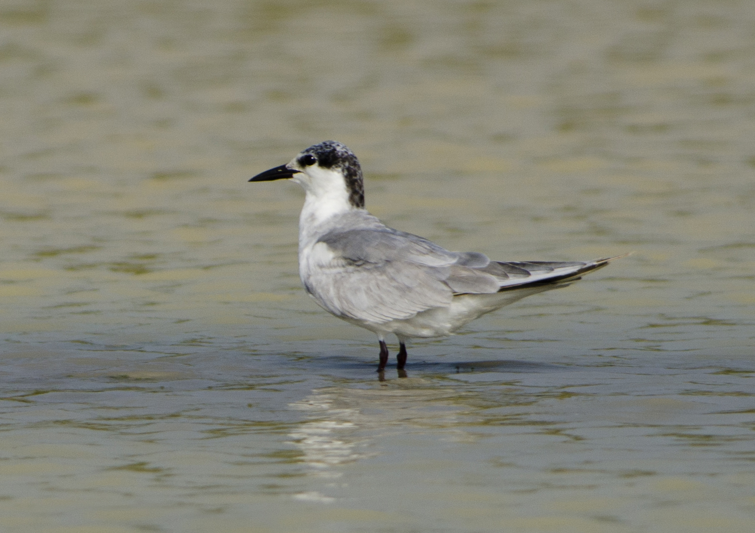 Gull-billed Tern in Koonthalulam, India, by Dr. Tejinder Singh Rawal